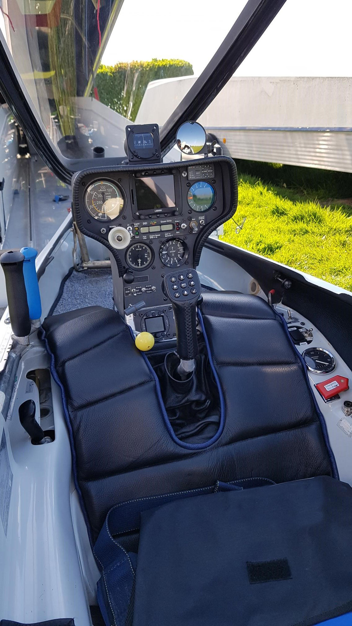 Glaser-Dirks Flugzeugbau, DG 400 Cockpit with DEI, LX8000 and KRT2